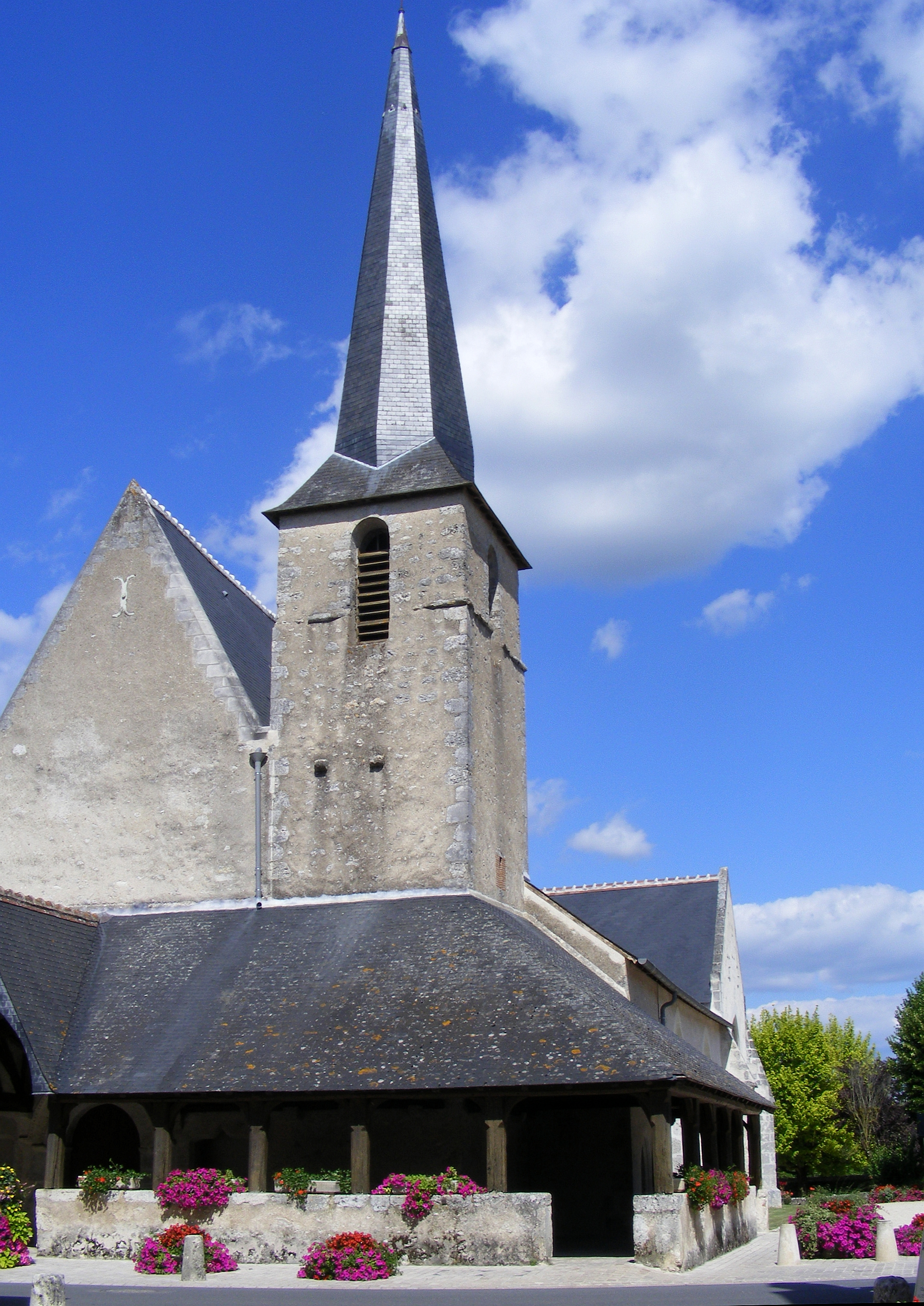 Cheverny (Loir-et-Cher, France): bell tower